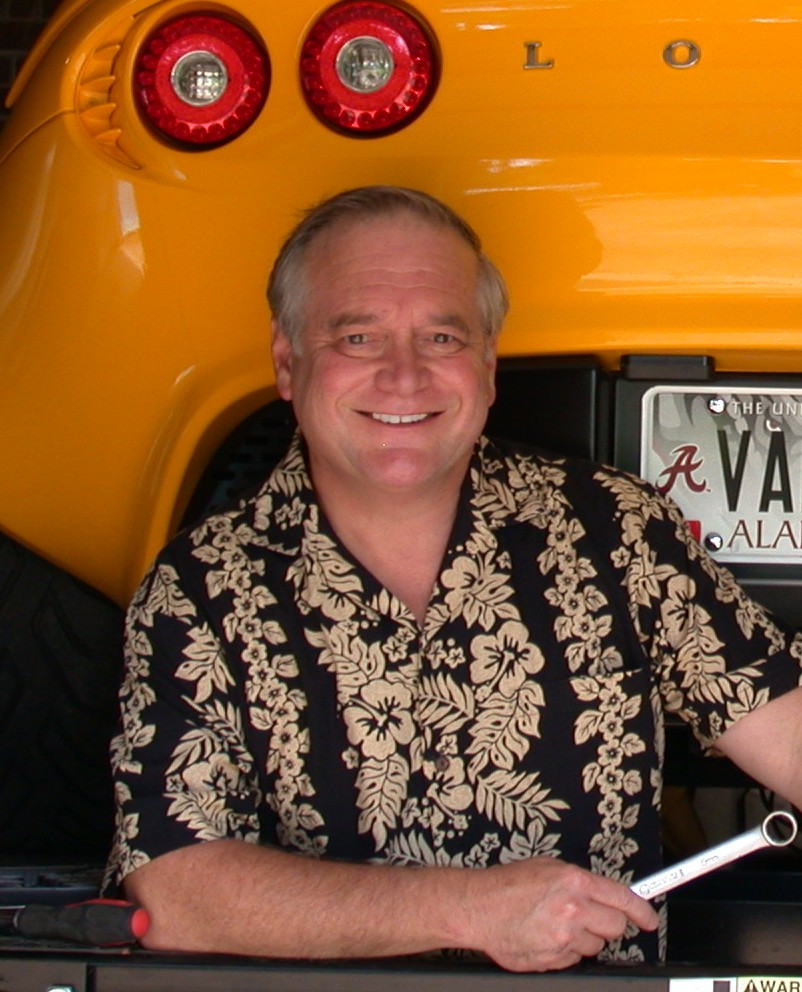 A.J. Arduengo working on his 2008 Lotus Elise California Edition. This is a self shot by Dr. Anthony J. Arduengo